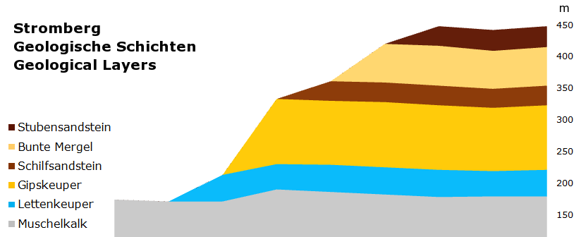 Geological layers of the Stromberg in Baden-Württemberg